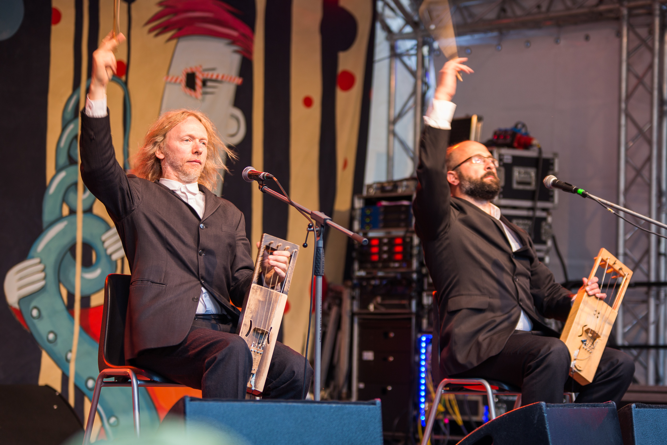 Puuluup playing at the Rudolstadt-Festival 2018.